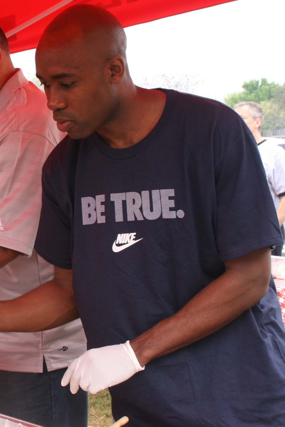 Spurs guard Jacque Vaughn serves fans at a barbecue sponsored by the Y.O. Ranch This file has been extracted from another file: Jacque Vaughn Matt Bonner Army.mil-2007-03-28-122920.jpg